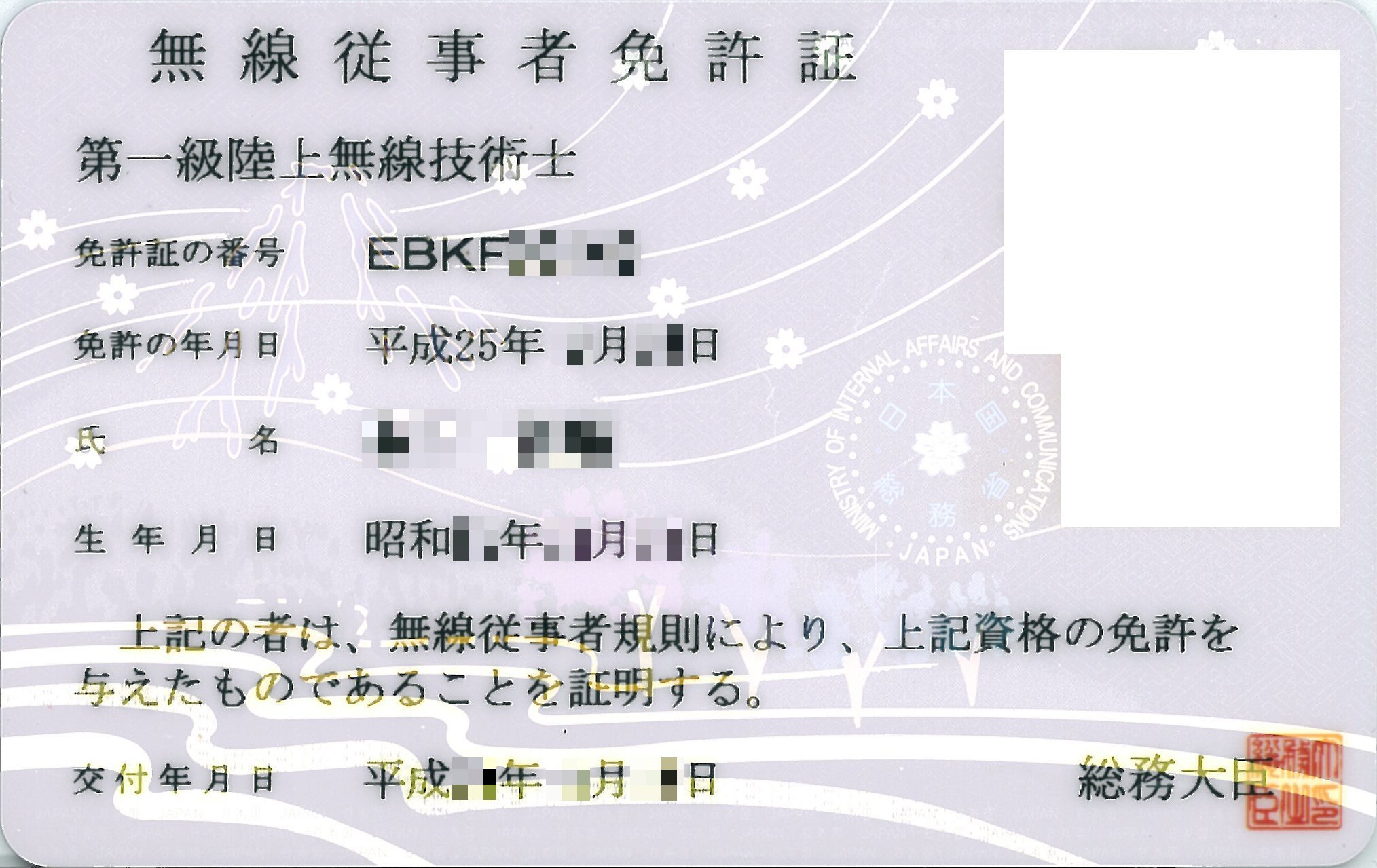 License card of Technical Radio Operator for On-The-Ground Services. Issued by the Minister for Internal Affairs and Communications(Japan).